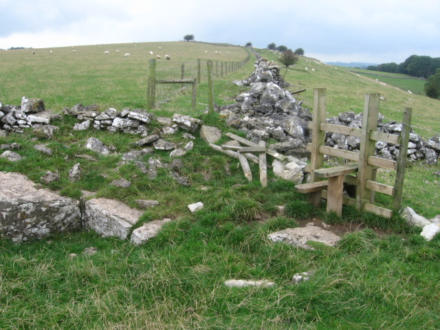 Hill top above Greenlow Farm